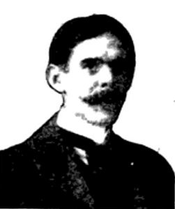 Photo of Joe S. Jackson